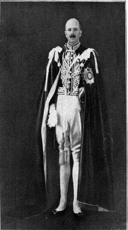 Portrait of Arthur Oswald James Hope, Governor of Madras from1940 to 1946